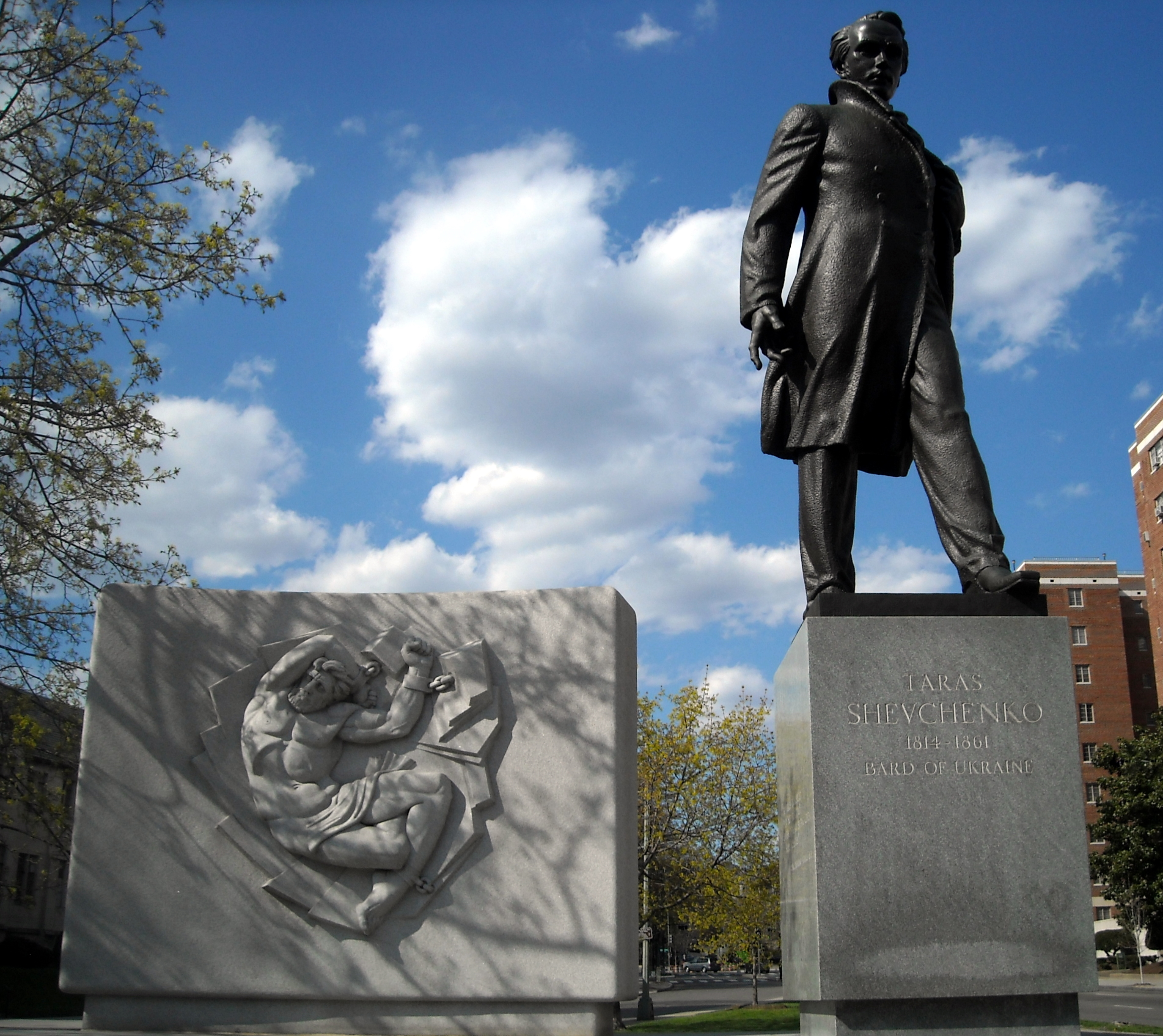 The Taras Shevchenko Memorial, located near the intersection of 22nd and P Streets, NW, in the Dupont Circle neighborhood of Washington, D.C. The statue was sculpted by Leo Mol, and the stonework was created by the Jones Brothers Company. A relief depicting Prometheus is located beside the statue. The memorial was authorized by Congress on September 13, 1960, and dedicated on June 27, 1964. It is administered by the National Park Service, a federal agency of the United States Department of the Interior.